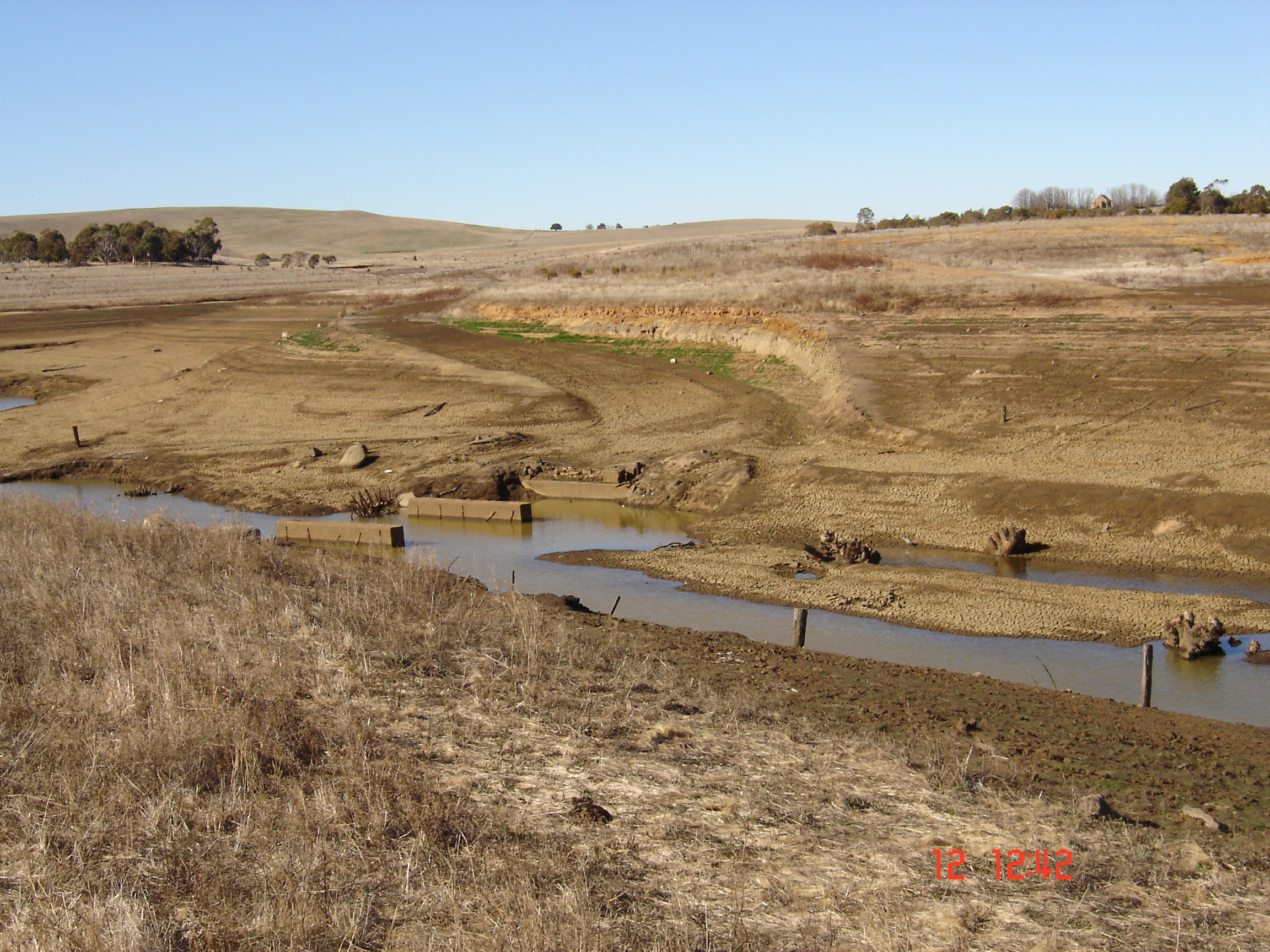 Section of the uncovered Pejar Dam, photograph taken on 14 June, 2006.